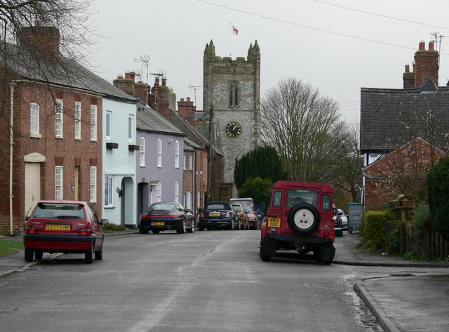 View south along St Peter's Road, Arnesby, Leicestershire, to the west tower of St Peter's parish church